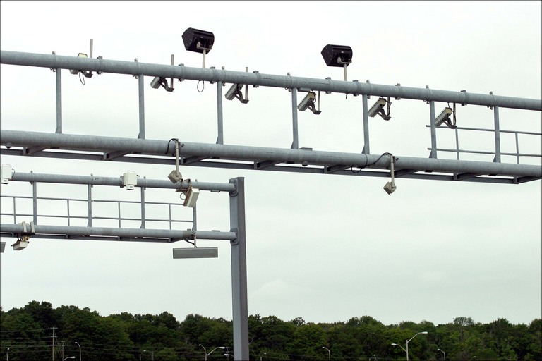 Scanners at exit of Highway 407 north of Toronto, which charges drivers based on either transponders in vehicles or image of license plate